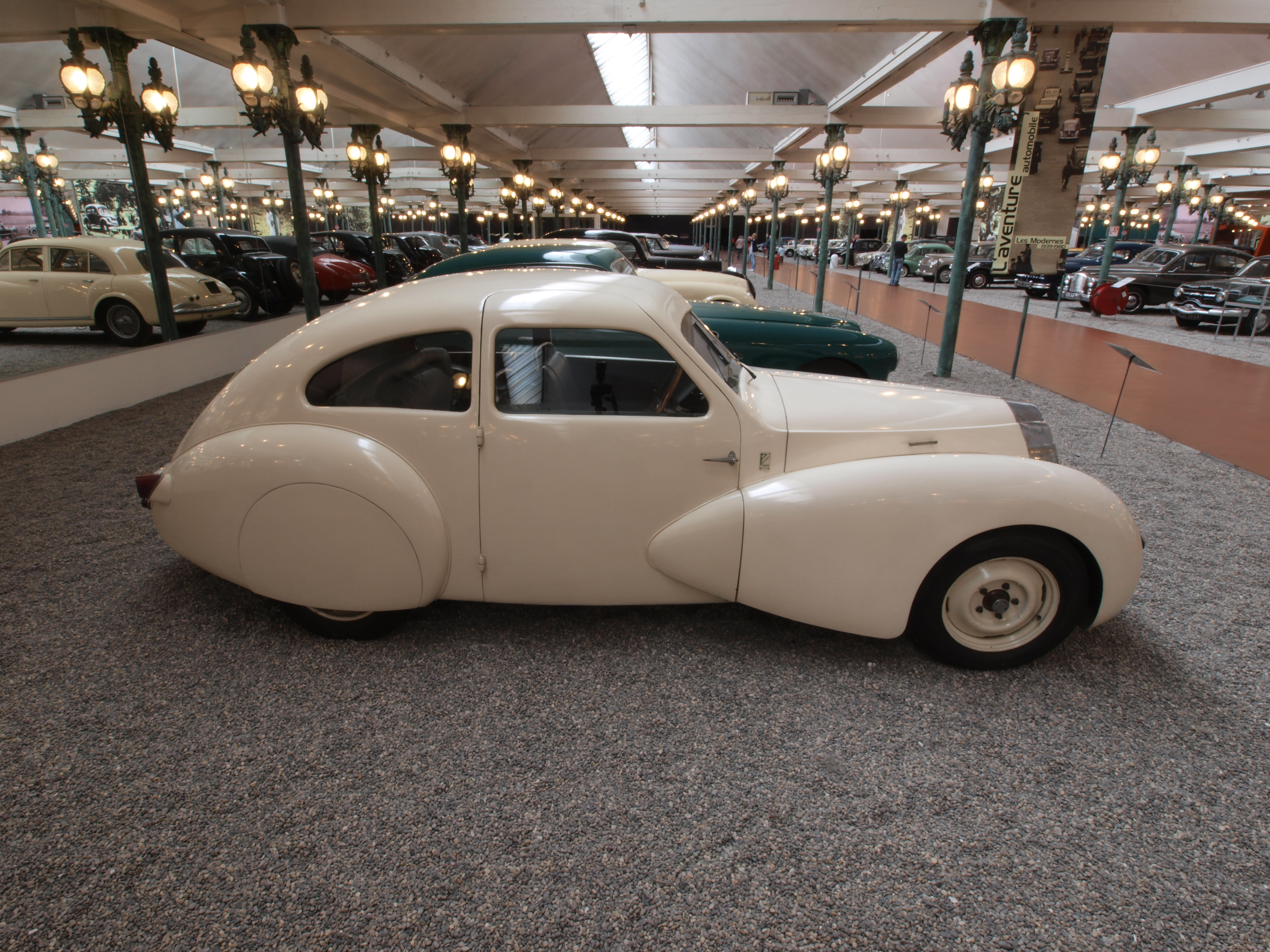 Photographed at the Cité de l’Automobile, France. OLYMPUS DIGITAL CAMERA